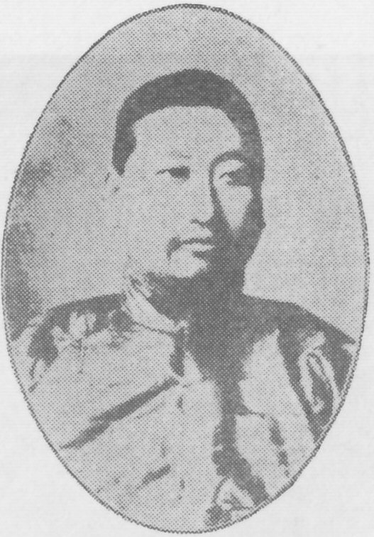 Xiong Xiling (1870 - 1937)